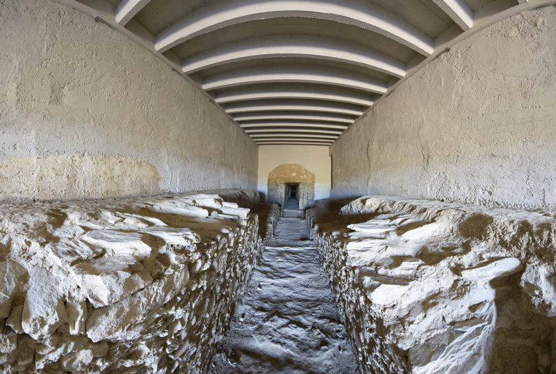 La Pastora dolmen, Valencina de la Concepción, Sevilla, Spain